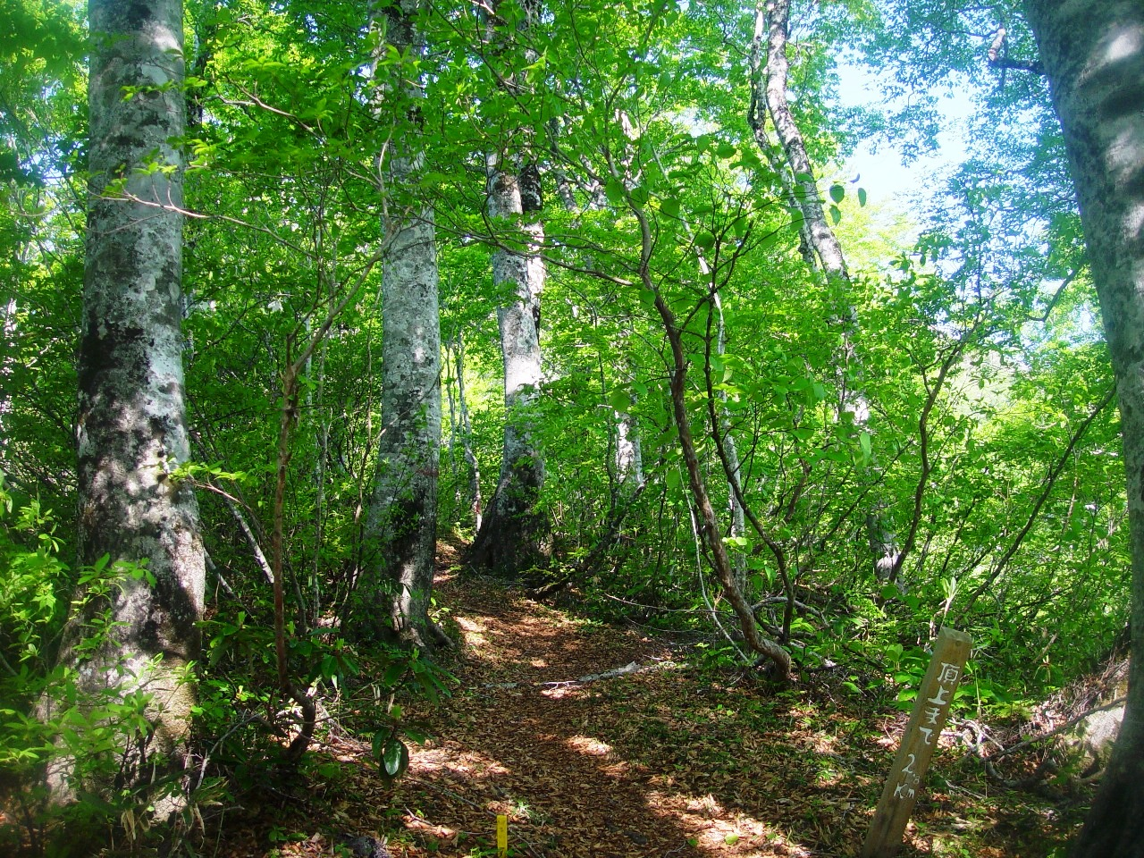 Fagus crenata in Mount Sanpokuzure